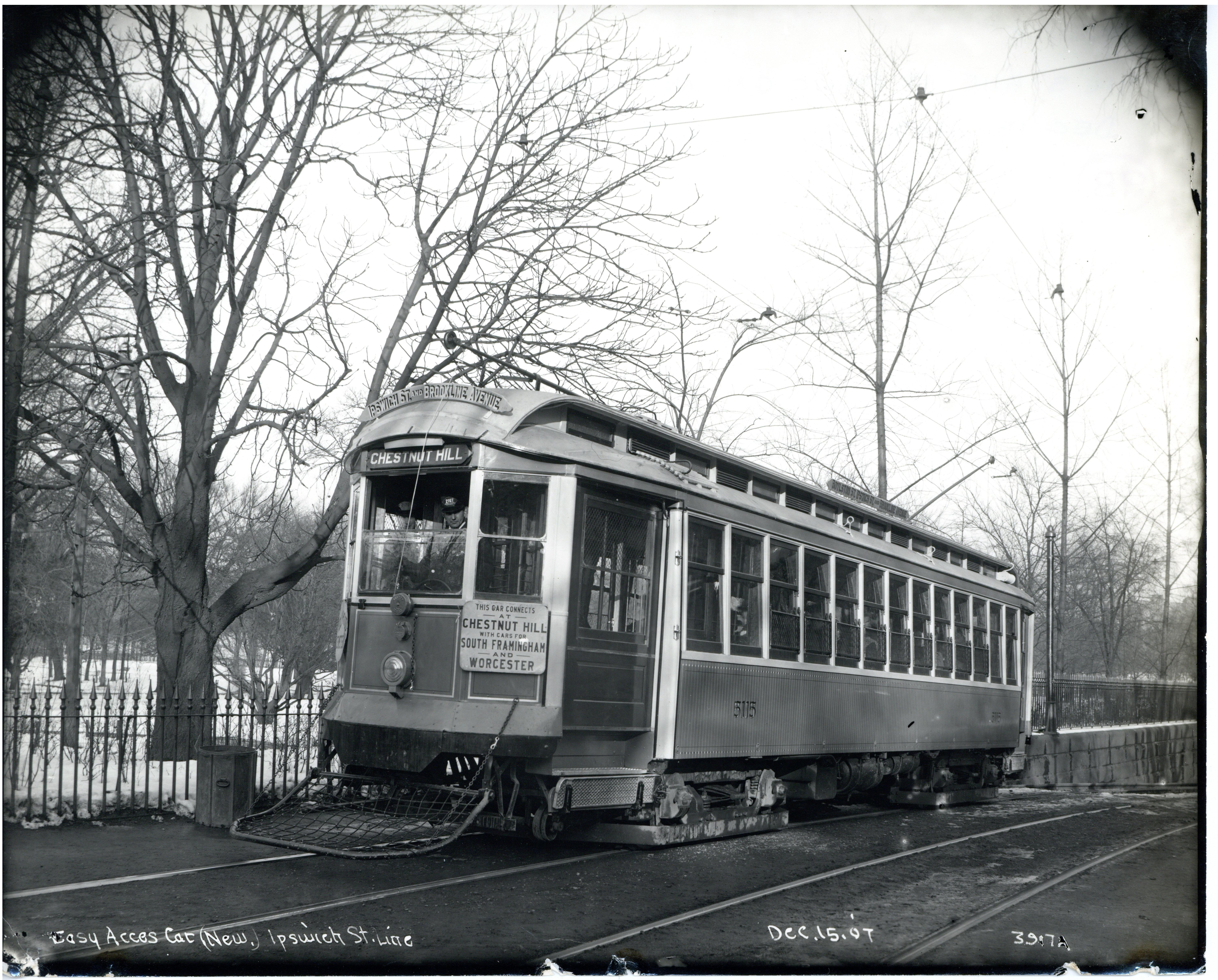 A new "easy access" (Type 3) car, #5115, at the Public Gardens Portal in December 1907, bound for Chestnut Hill via Ipswich Street (what would later become the route 60 bus). This photograph was taken two days after the car entered service.